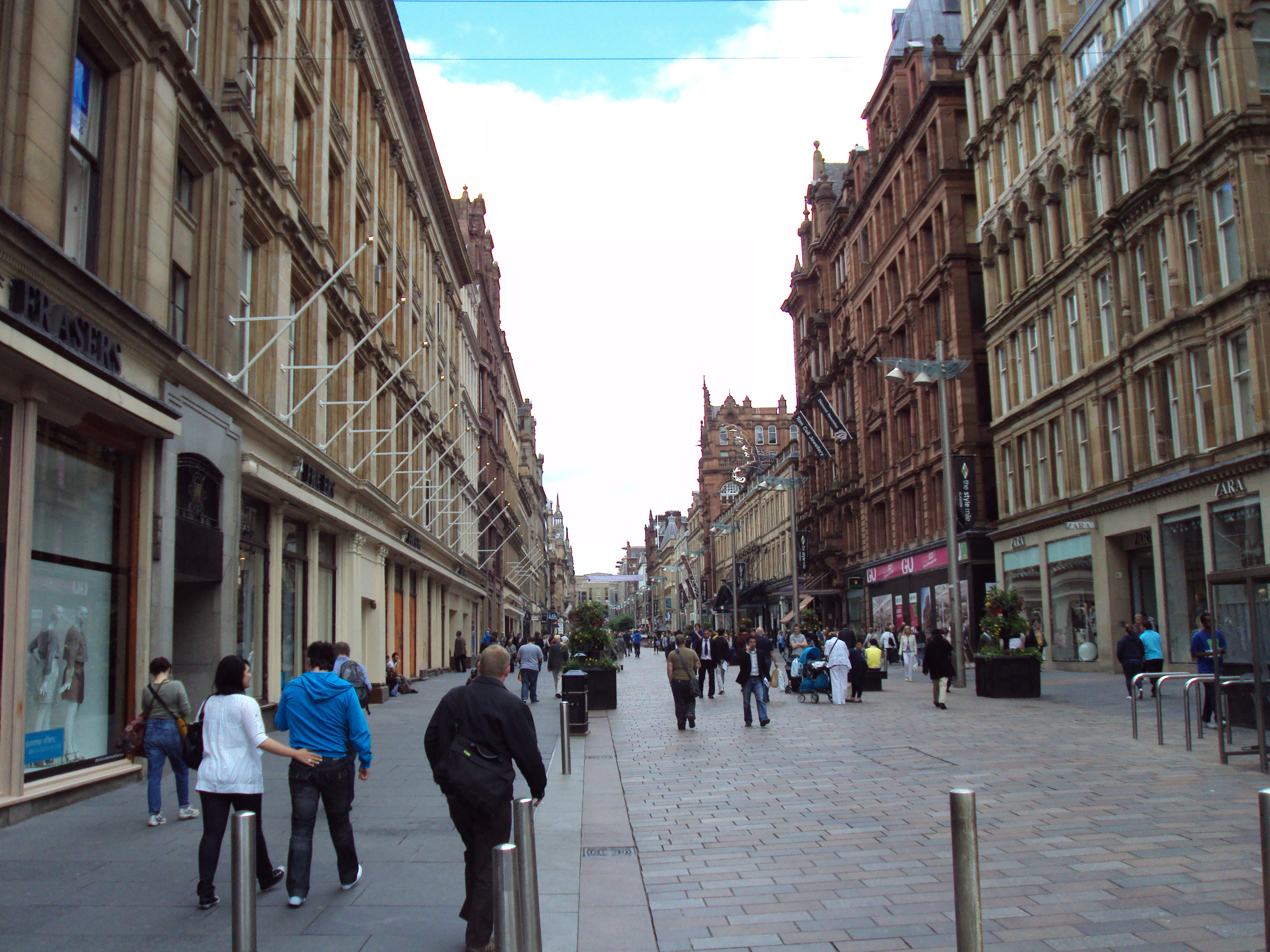 Buchanan Street, Glasgow, Scotland.